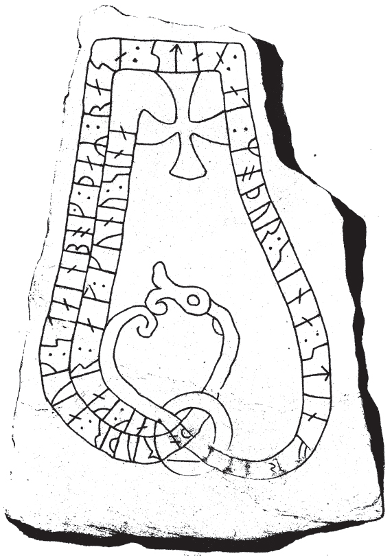 The runestone Sö 128. The inscription reads þoruþr : auk : stainbog : þaR : rasa : stan : at : moþur : sina * stanfriþi ak : kar : a(t) : kunu sina :. In English "Þórunnr and Steinbjôrg, they raise the stone in memory of their mother Steinfríðr; and Kárr in memory of his wife."